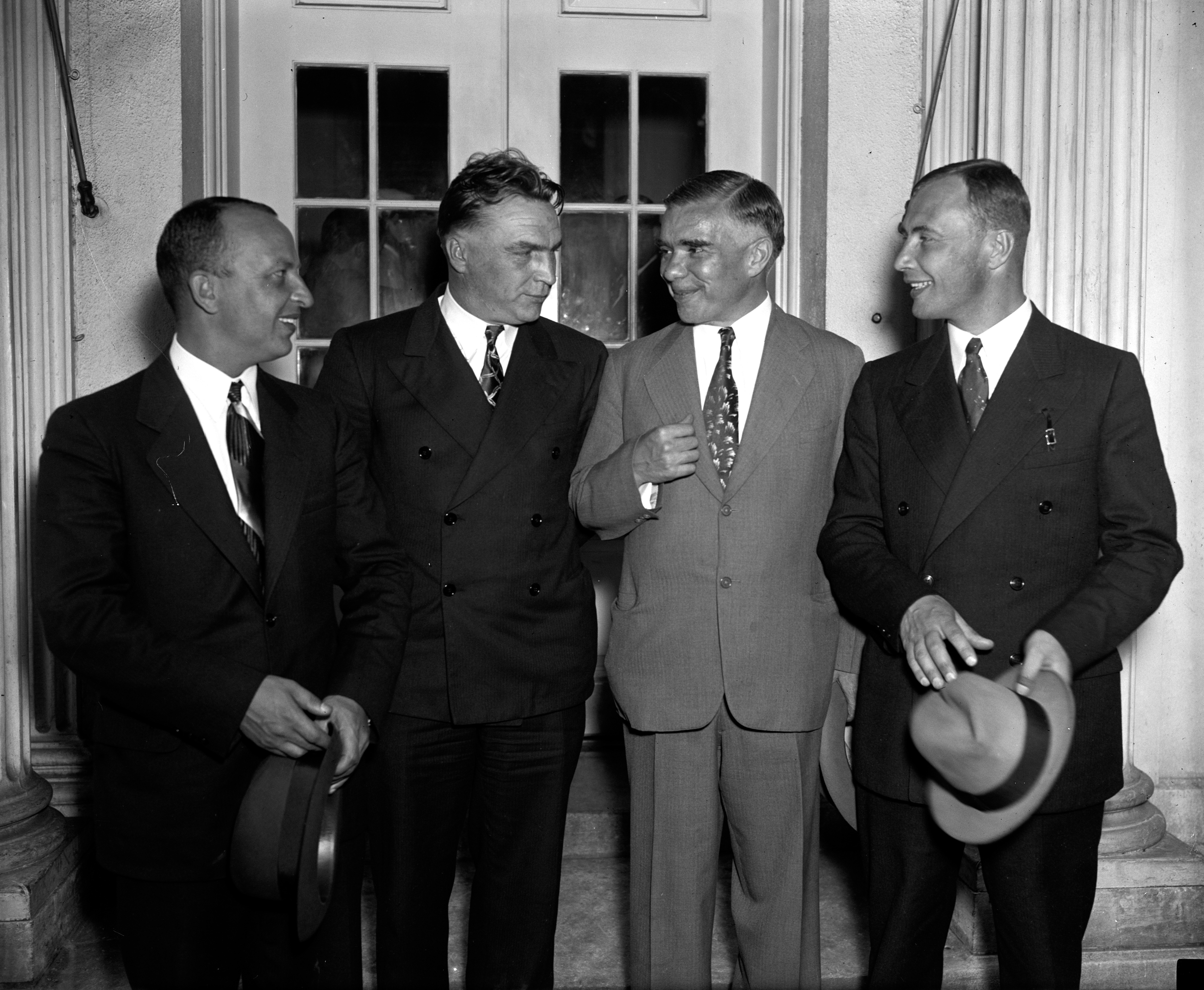 Soviet Flyers at White House. Washington D.C June 28. The three Soviet Flyers who conquered the North Pole route between the U.S.S.R. and the United States are shown leaving the White House today after being received by President Roosevelt. In the photograph, left to right: Georgiy Baidukov, co-pilot (Байдуков, Георгий Филиппович); Valeri Chkalov (Чкалов, Валерий Павлович}, Pilot; Soviet ambassador; Alexander Beliakov, navigator (Беляков, Александр Васильевич).